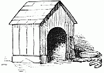 (Removed after reusableart request.)